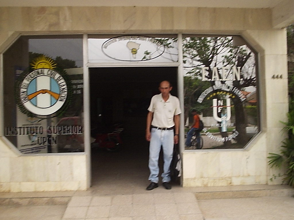 Sede de la Extensión Universitaria de la Universidad Nacional de Formosa en la Ciudad de Clorinda. Headquarters of the Extension of the National University of Formosa in the City of Clorinda.